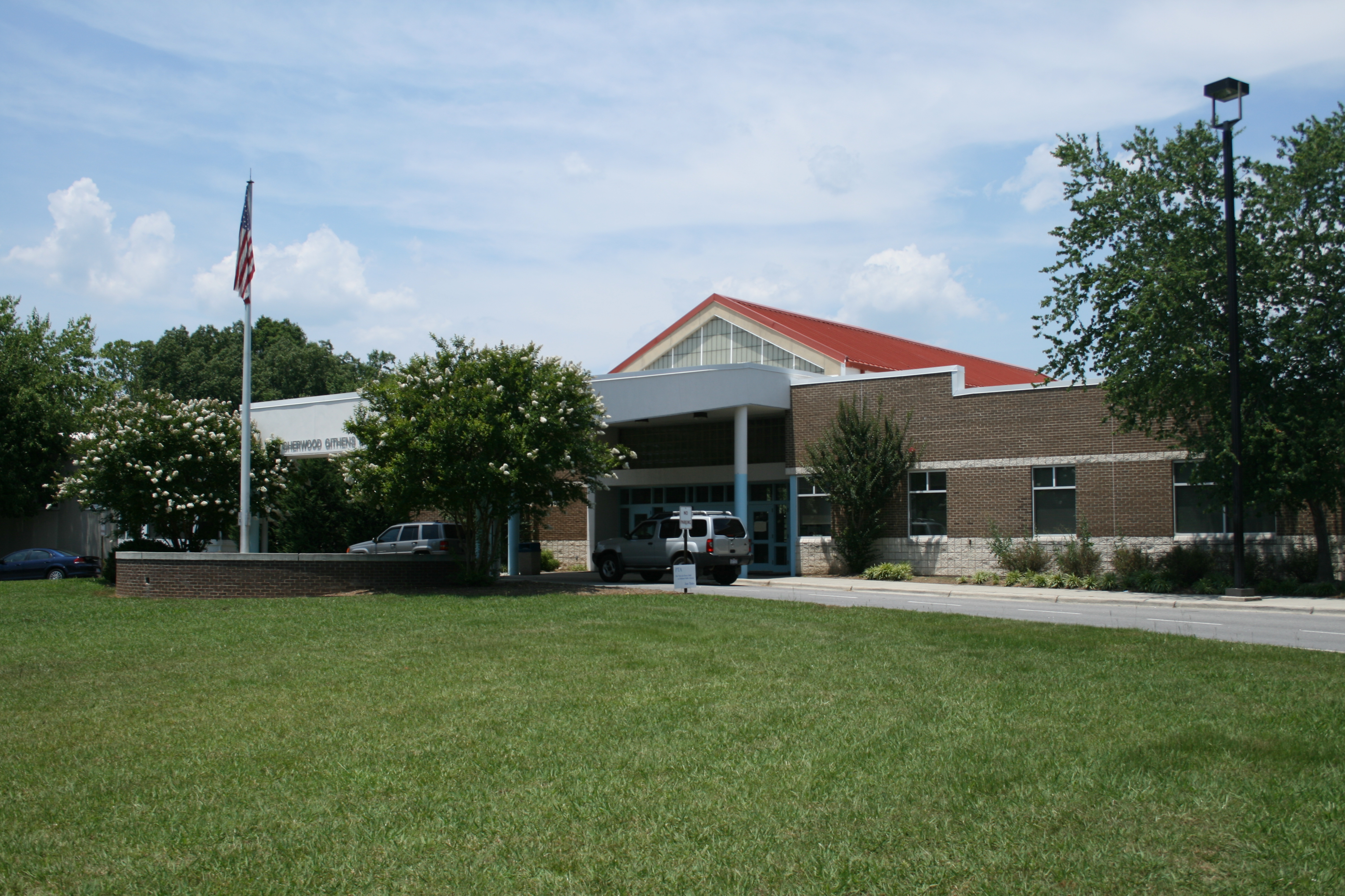 Sherwood Githens Middle School in Durham, North Carolina.